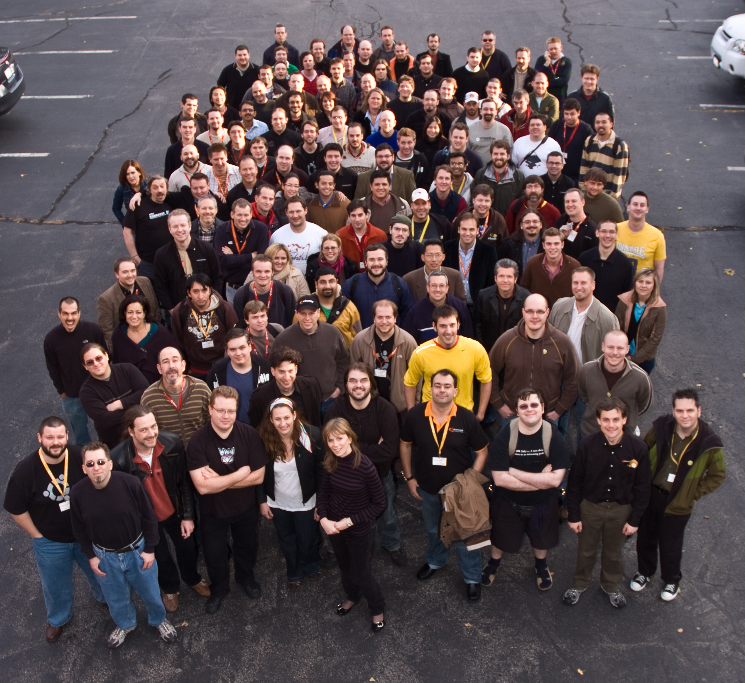 Members of Canonical Ltd. taken in November 2007 at a company "All Hands" conference in Plymouth, Massachusetts, US.